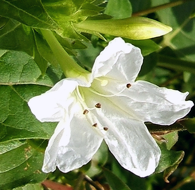 Four o'clock flower, Marvel of Peru